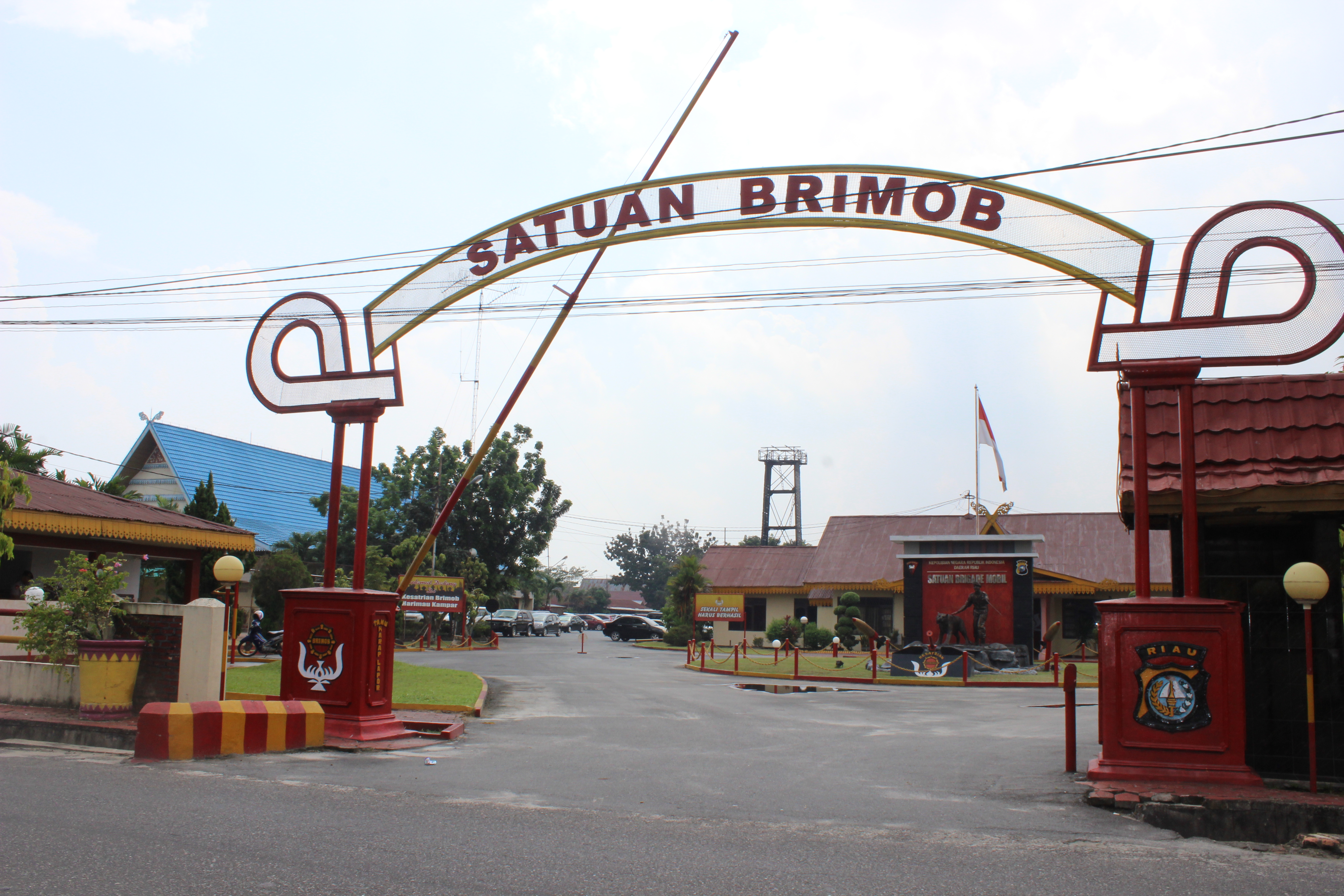 The headquarter of Indonesian Mobile Brigade, Pekanbaru.